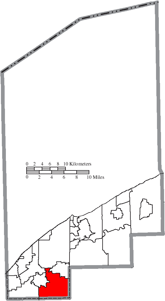 Map of the municipal and township boundaries of Lake County, Ohio, United States, as of the 2000 census, with the location of the city of Kirtland highlighted. Township borders are shown only in unincorporated areas in order to differentiate incorporated and unincorporated areas more clearly.